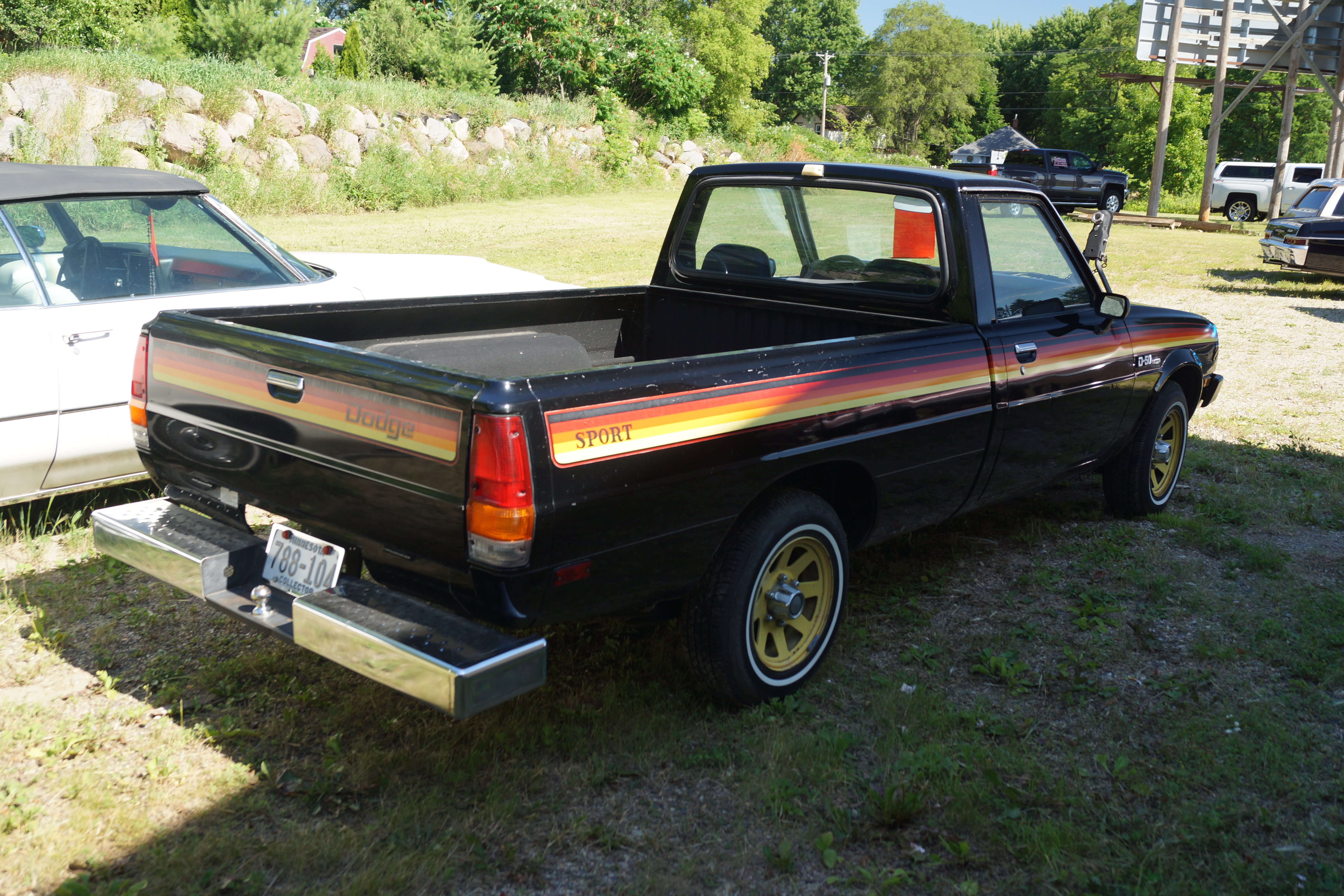 Classic Rides & Rods Car Show 220 Poplar Lane Annandale, Minnesota Click here for more car pictures at my Flickr site.